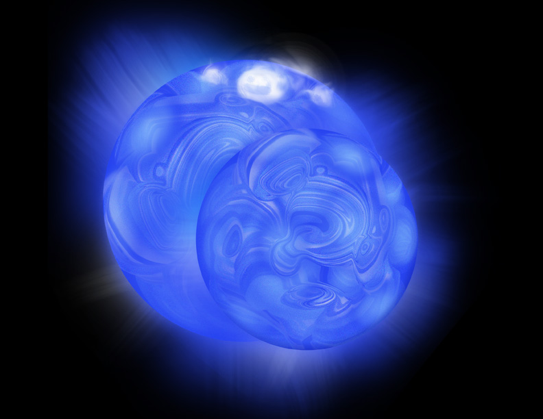 44i Bootis; artist's conception.